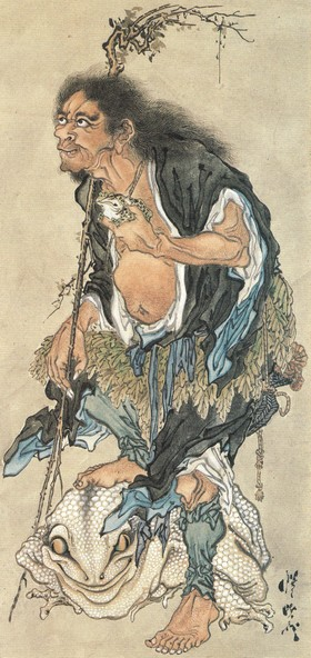 Gama-Sennin (Toad Hermit)